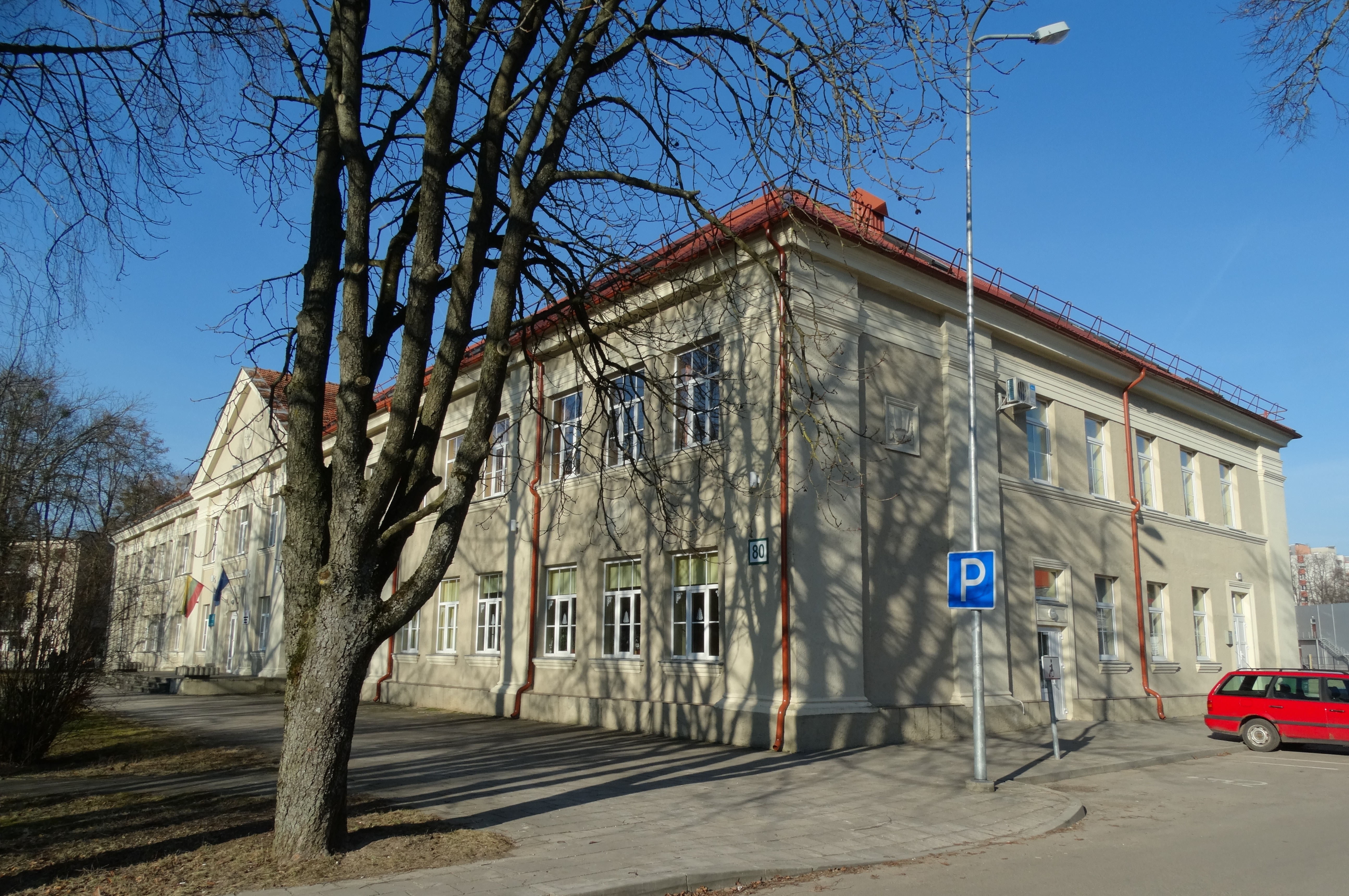 Education centre, Druskininkai, Lithuania